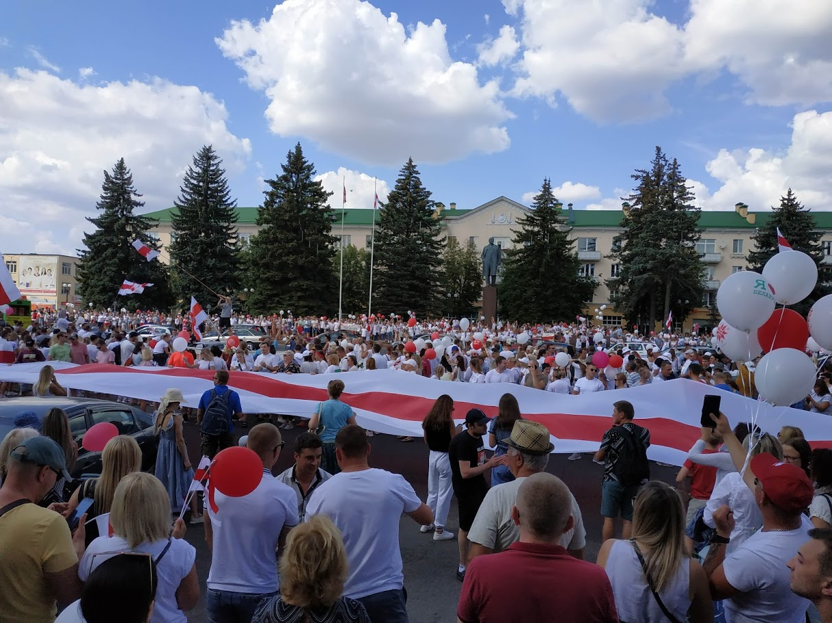 Protest rally against Lukashenko, 16 August. Baranavichy, Belarus